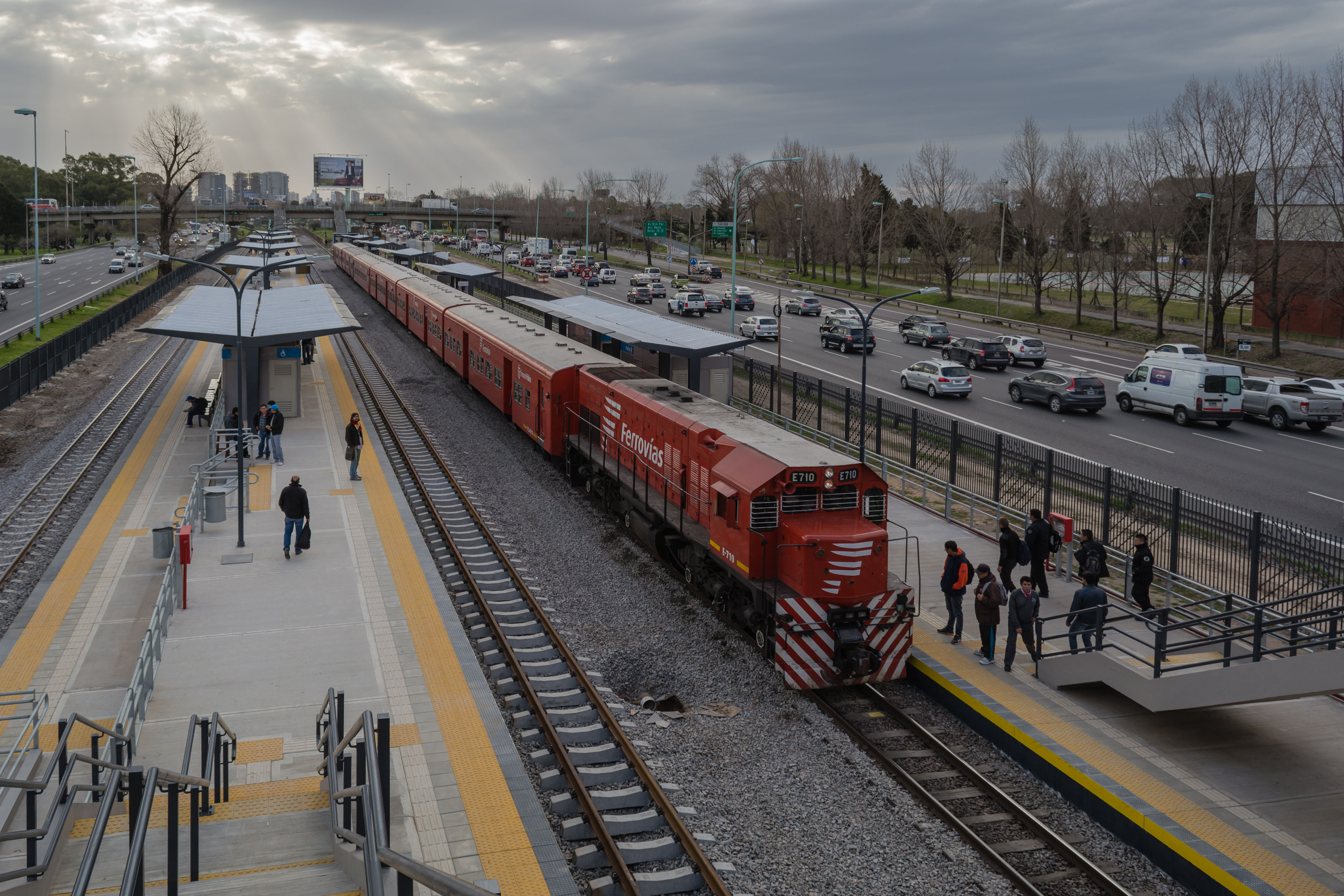 University Campus railway station in Buenos Aires on day of inauguration